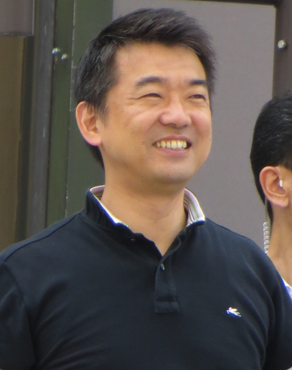 Tōru Hashimoto (Mayor of Osaka city and co-leader of Japan Restoration Party.).